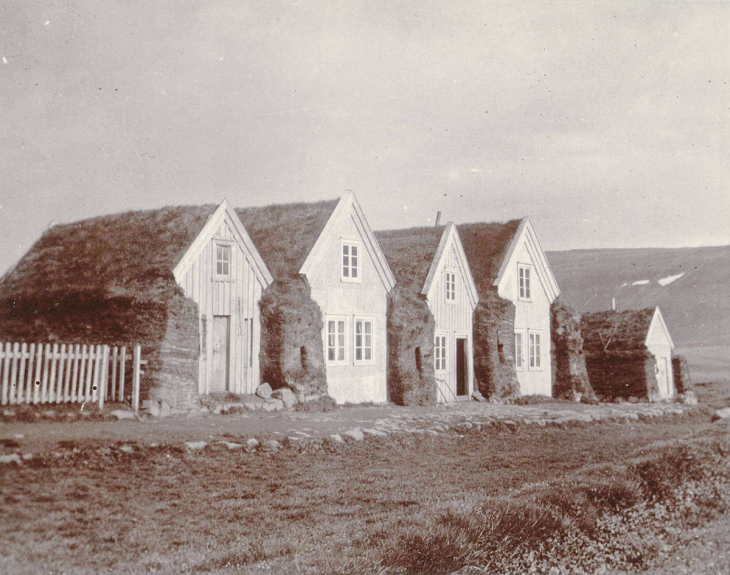 Collection: Icelandic and Faroese Photographs of Frederick W.W. Howell, Cornell University Library